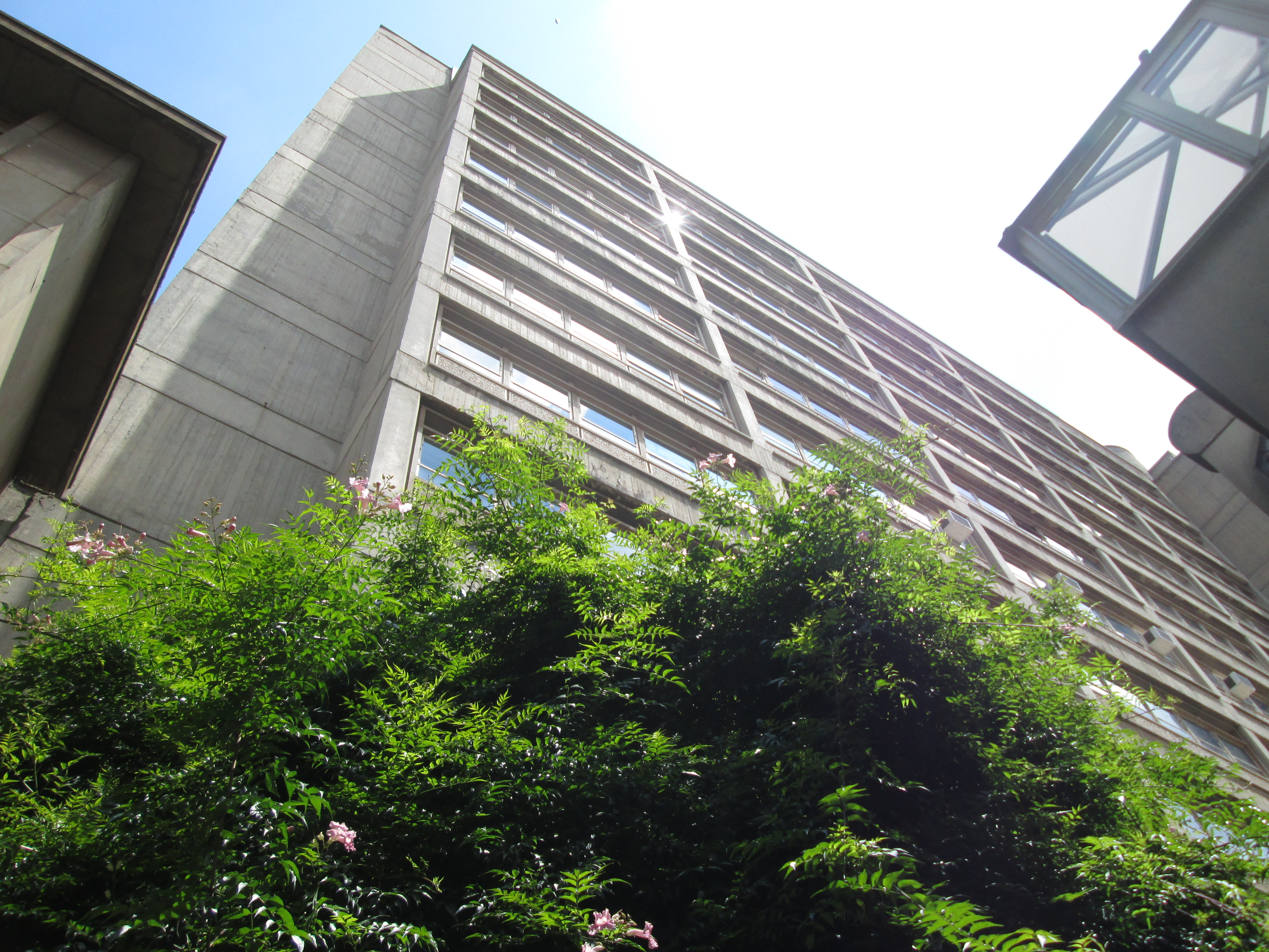 Gatehouse, on the East Campus of the University of the Witwatersrand, Johannesburg, formally housed the Faculty of Science. Viewed in this photograph looking up at an angle from its north-eastern side.